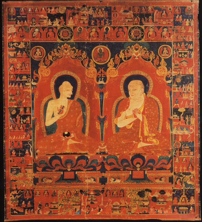 Wall depiction of Buton Rinchen Drub a 11th century Tibetan abbot. Source:kaladarshanarts at Ohio State University. Image is almost 1000 years old.